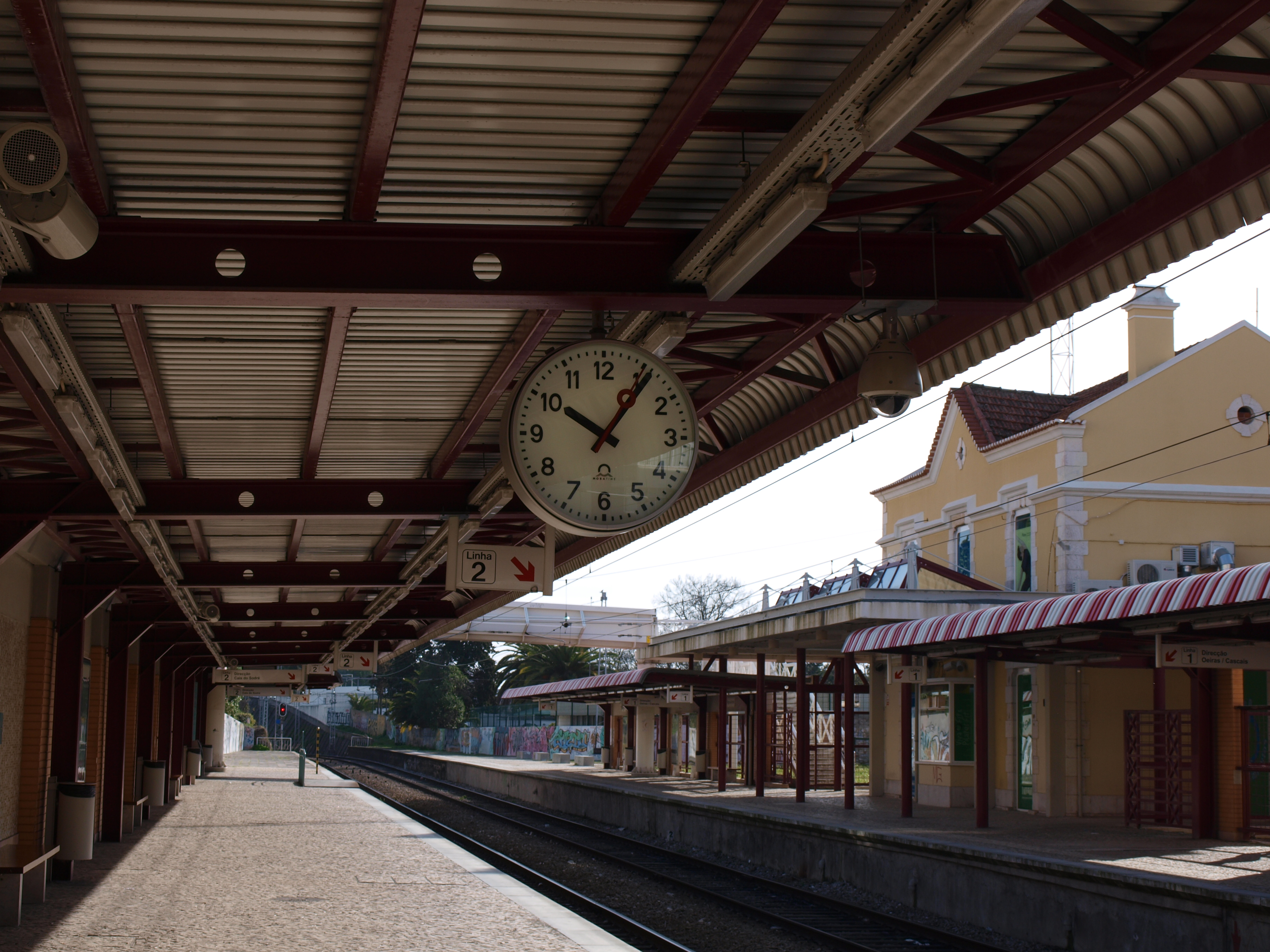 Clock at the Paço de Arcos train station, Portugal.